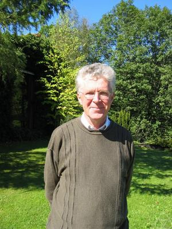 Jakob Yngvason, Oberwolfach 2005